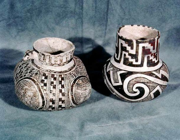 "Roosevelt black-on-white" (old name) pots excavated from Roosevelt Lake area.